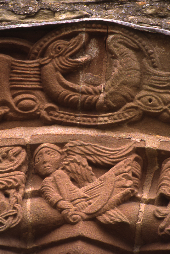 A scan from a 35mm transparency which I took at the Romanesque church of SS Mary and David in Kilpeck, Herefordshire, England in 1989. It shows a detail of the carvings, at the centre of the arch above the south door, representing a flying angel, with a curled serpent in the linked border above it. Carved during the mid 12th century AD (late Norman period) by an unknown sculptor of the Herfordshire School. This scan is in the Public Domain (however, I retain ownership and copyright of the original transparency and any higher-resolution scans derived from it). If you use the photo outside Wikipedia, a photographer's credit (Simon Garbutt) would be appreciated. SiGarb 13:38, 23 November 2005 (UTC)